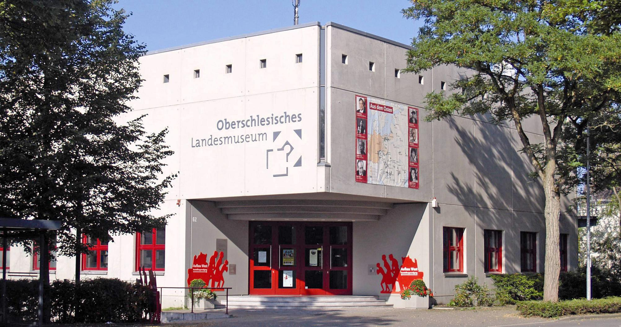 Upper-Silesian Provincial Museum (Oberschlesisches Landesmuseum) in Ratingen-Hösel, 2007